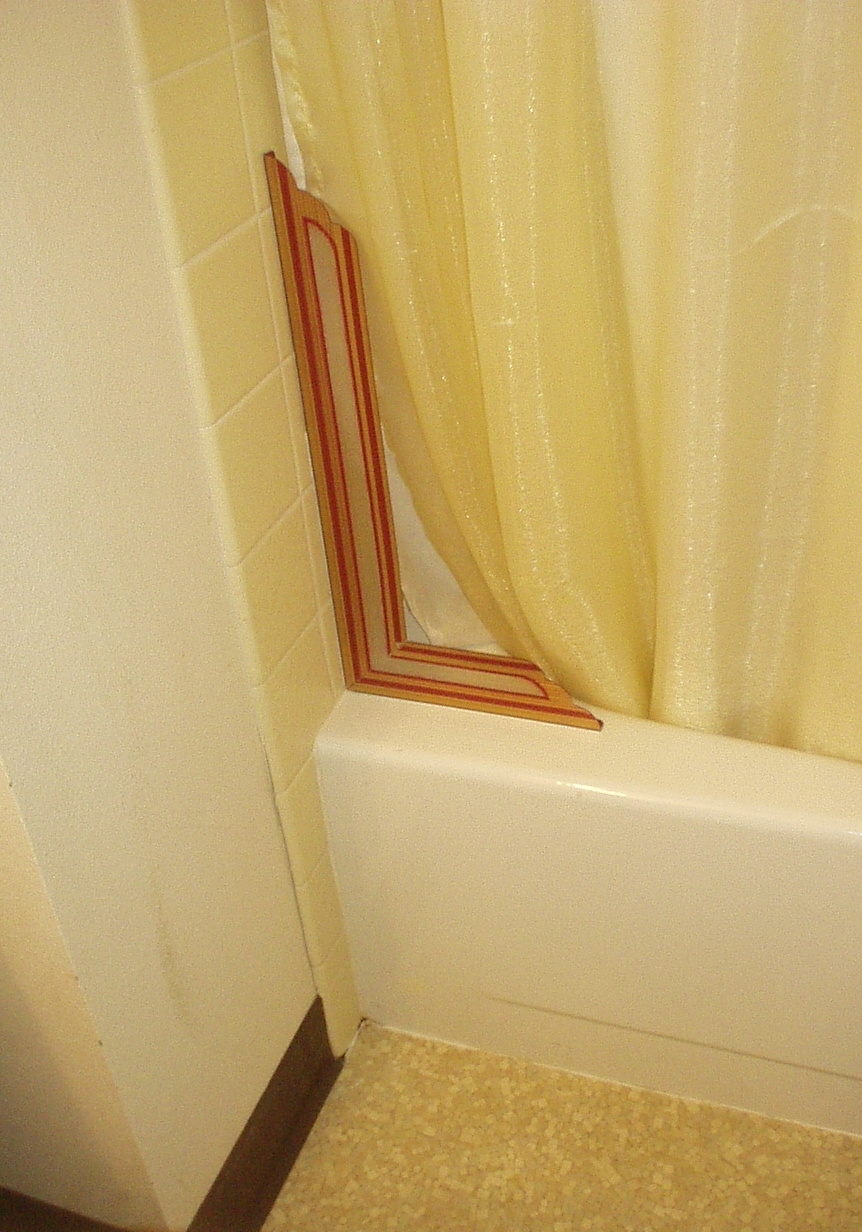 Typical rectangular drop-in bathtub displaying a bathtub splash guard, shower curtain, and shower curtain liner.